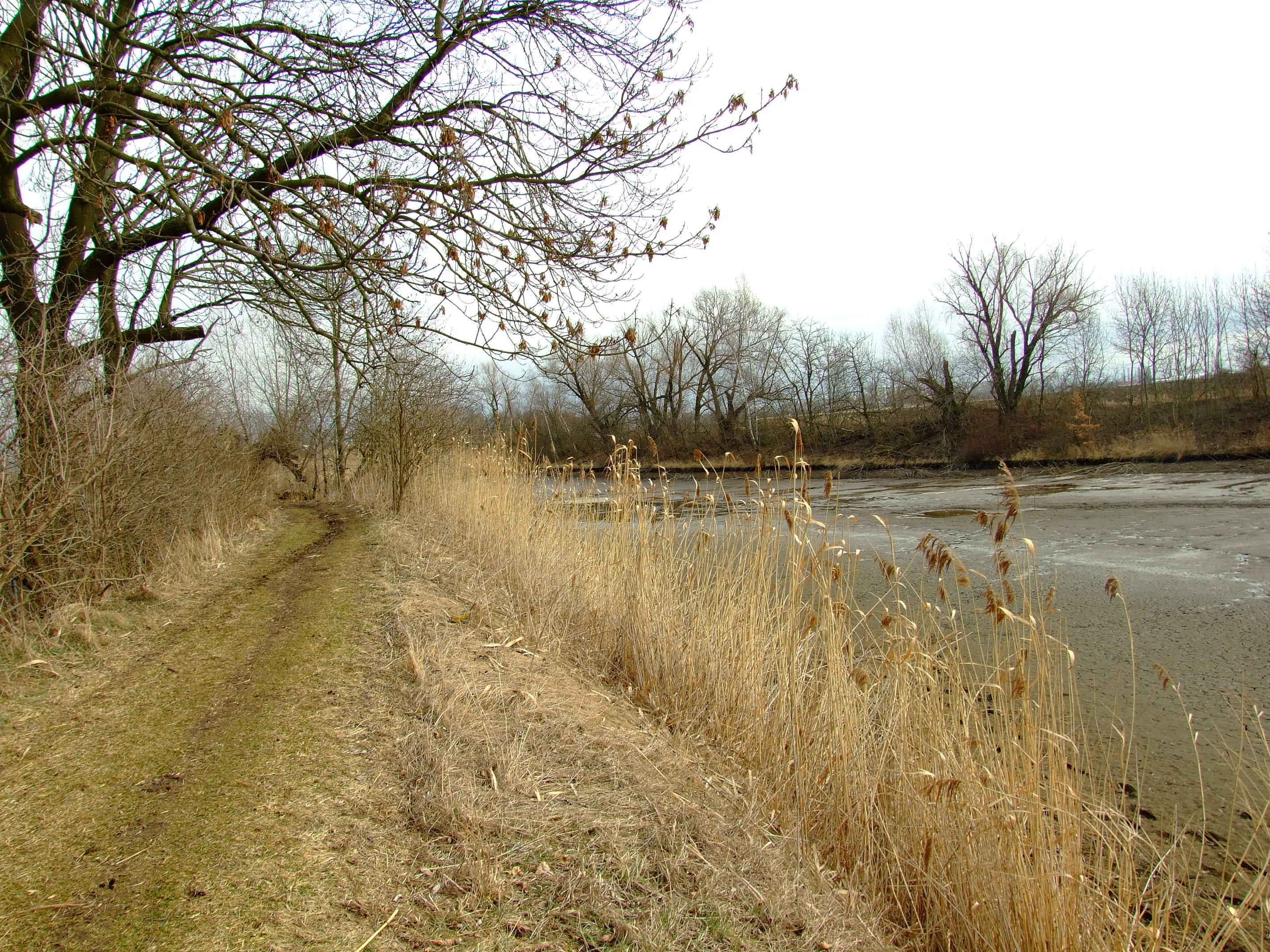 Peterka's Pond in Hostivice, Prague-West District Central Bohemian Region, the Czech Republic.